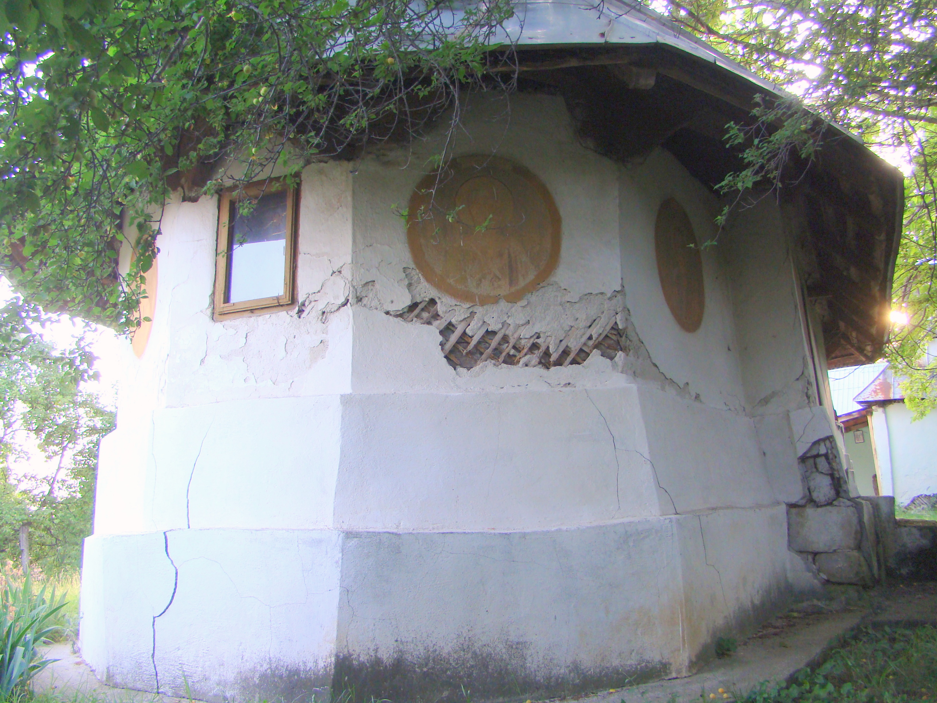 Wooden church in Seciurile, Gorj county, Romania